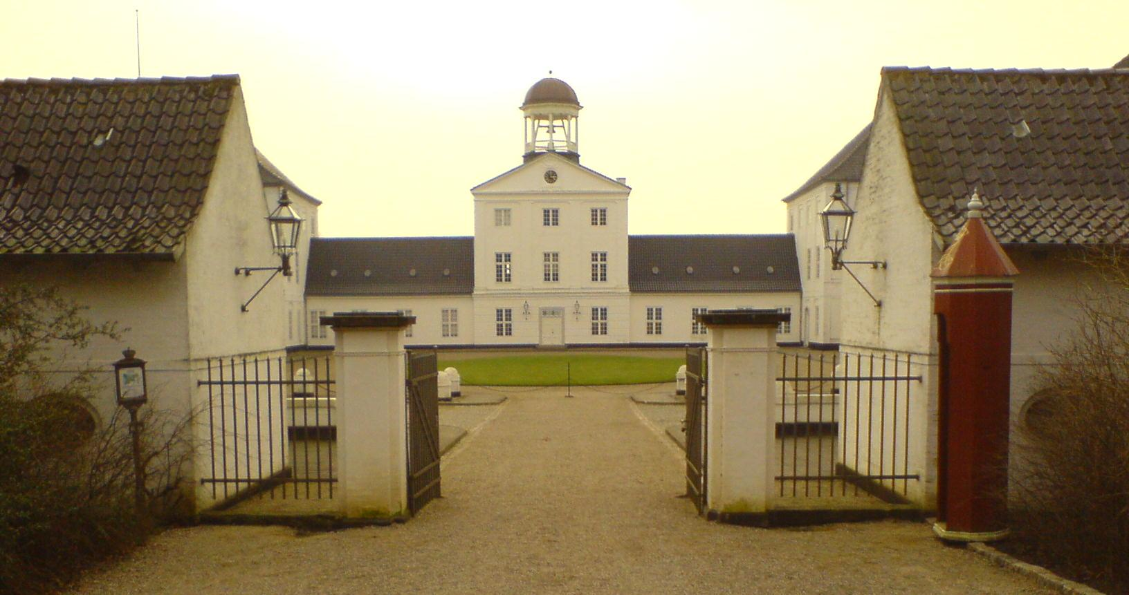 Description=Grasten Slot, Courtyard Source=myself Date=02.2007 Author=PodracerHH 18:20, 29 August 2007 (UTC)